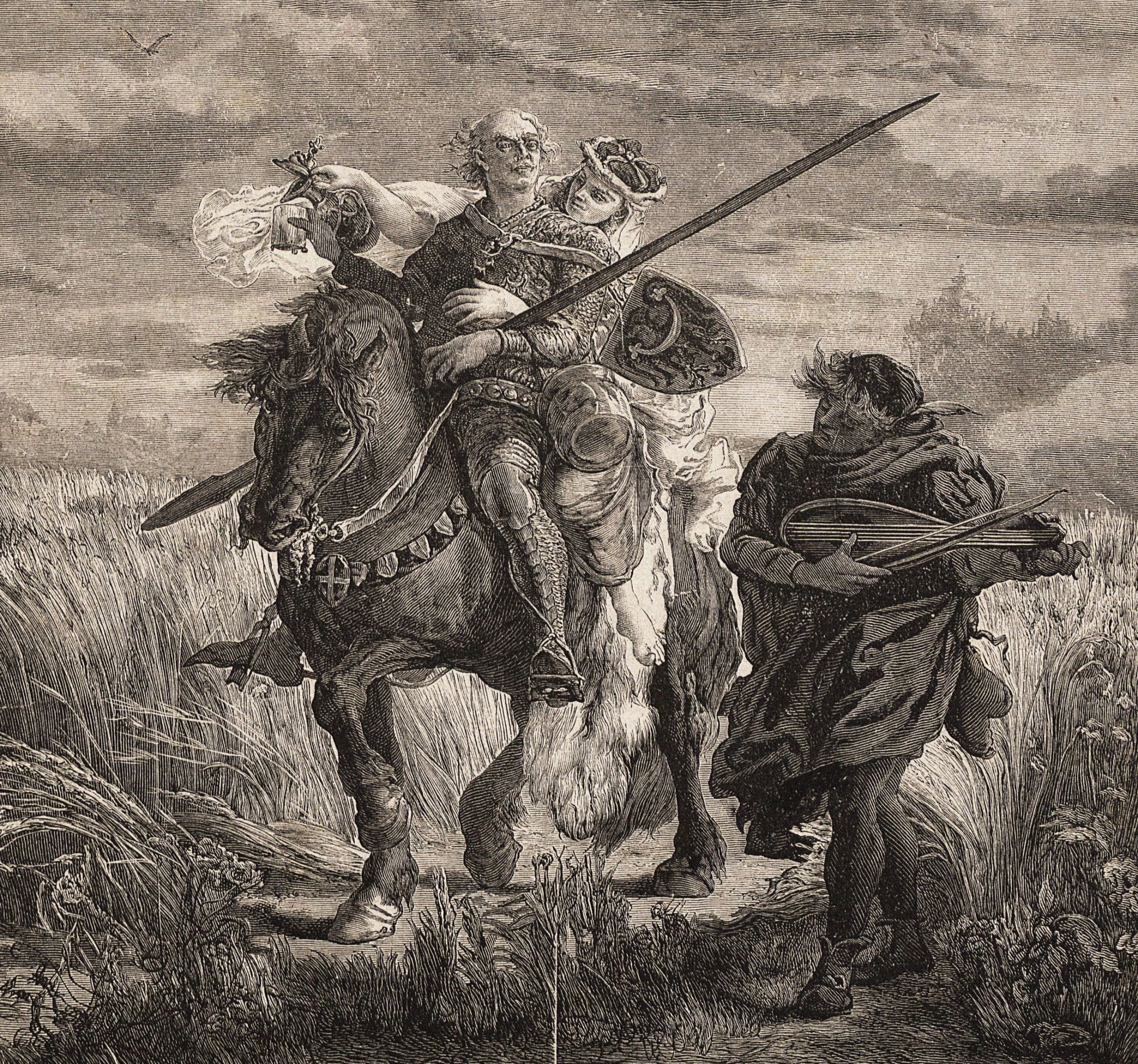 Bolesław II the Horned (ca. 1217-1278), Duke of Silesia